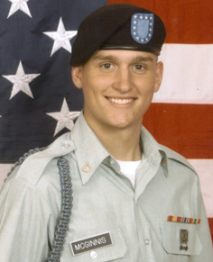 Private First Class Ross Andrew McGinnis graduation photo at the Infantry School, Fort Benning, Georgia.